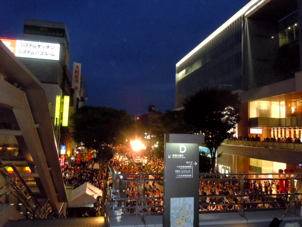 Iwaki Odori in 2010